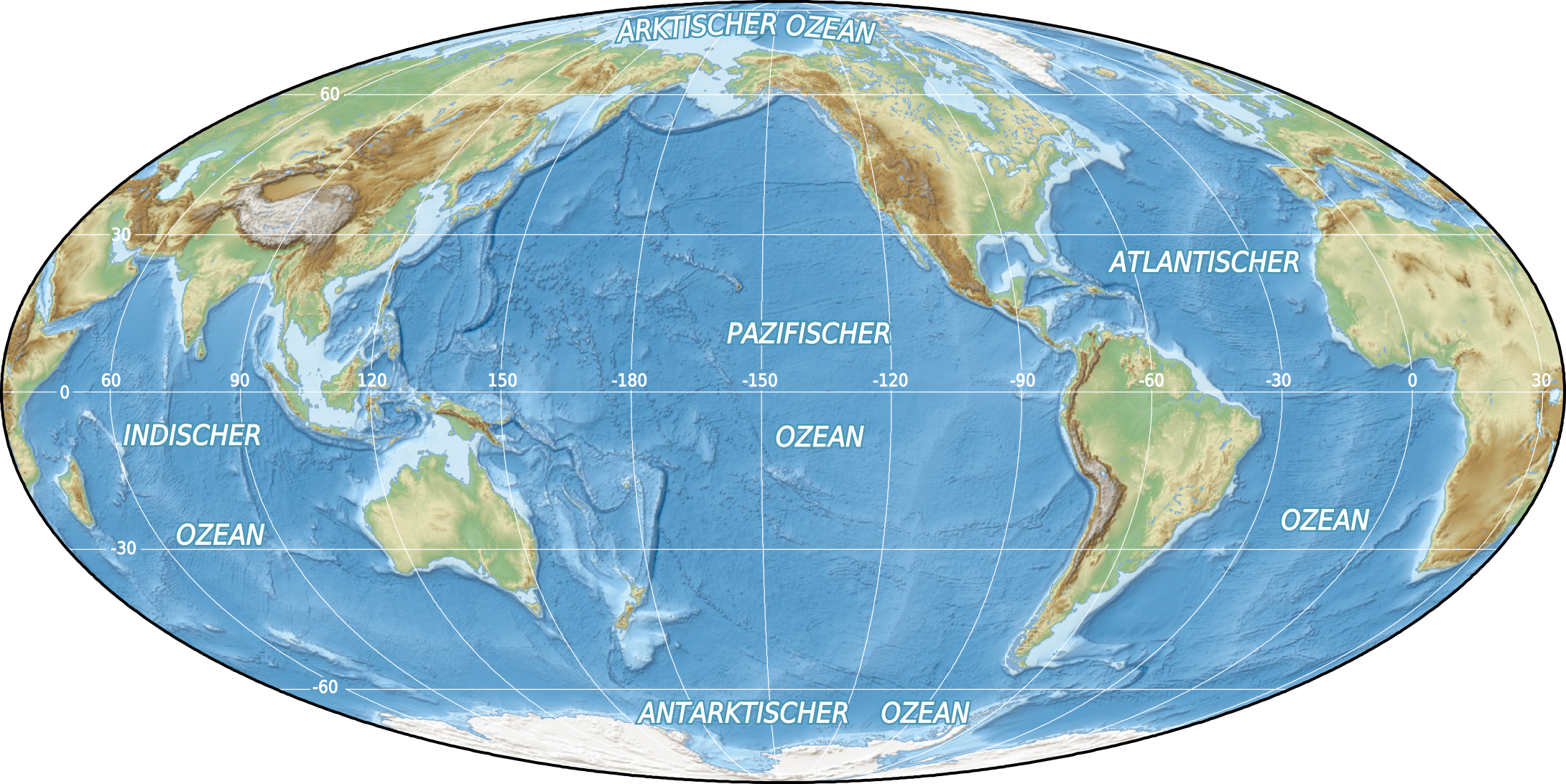 World oceans map (Mollweide projection -145°)